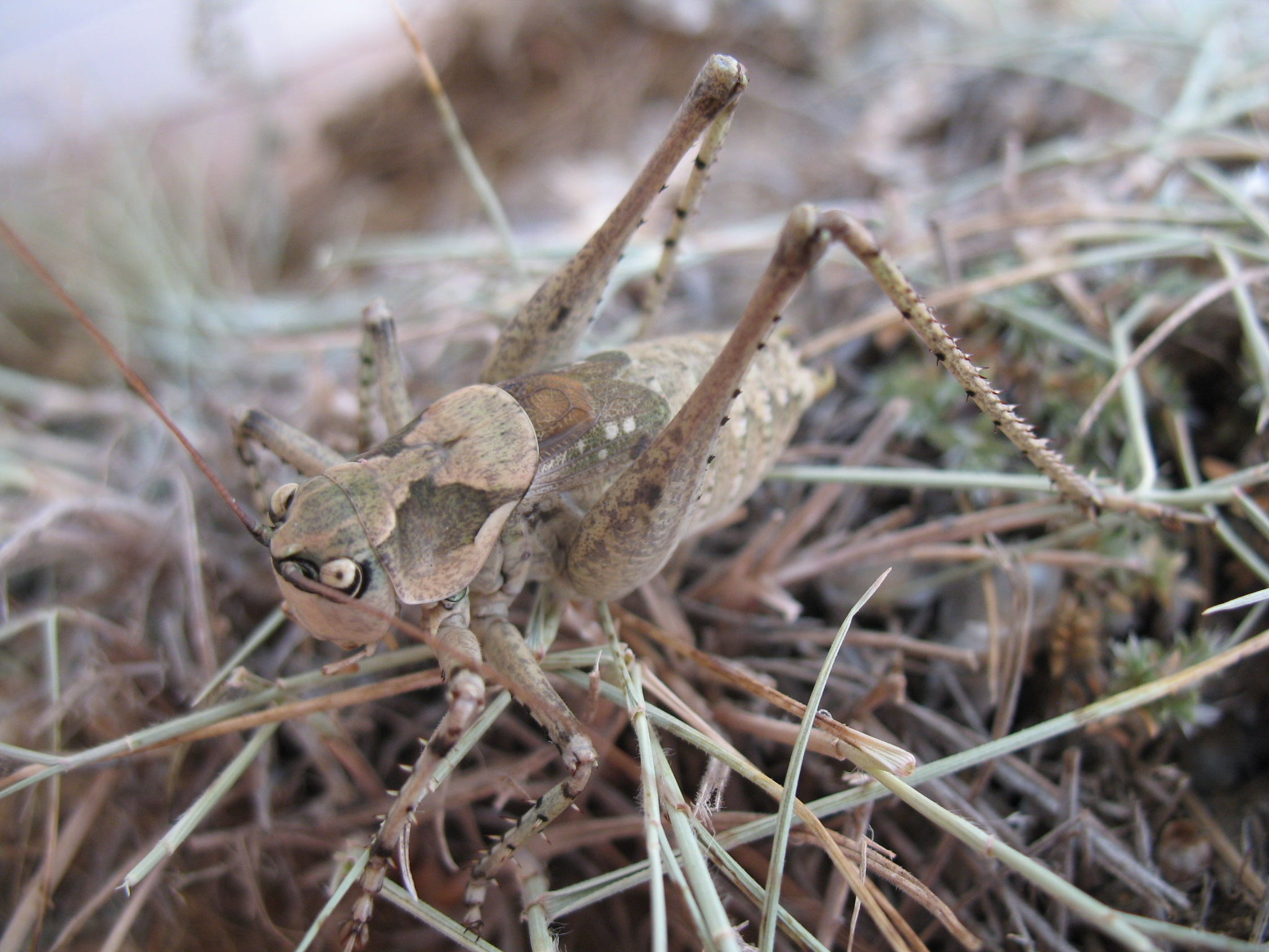 Male Anadrymadusa retowskii from Koktebel, Crimea, Ukraine.